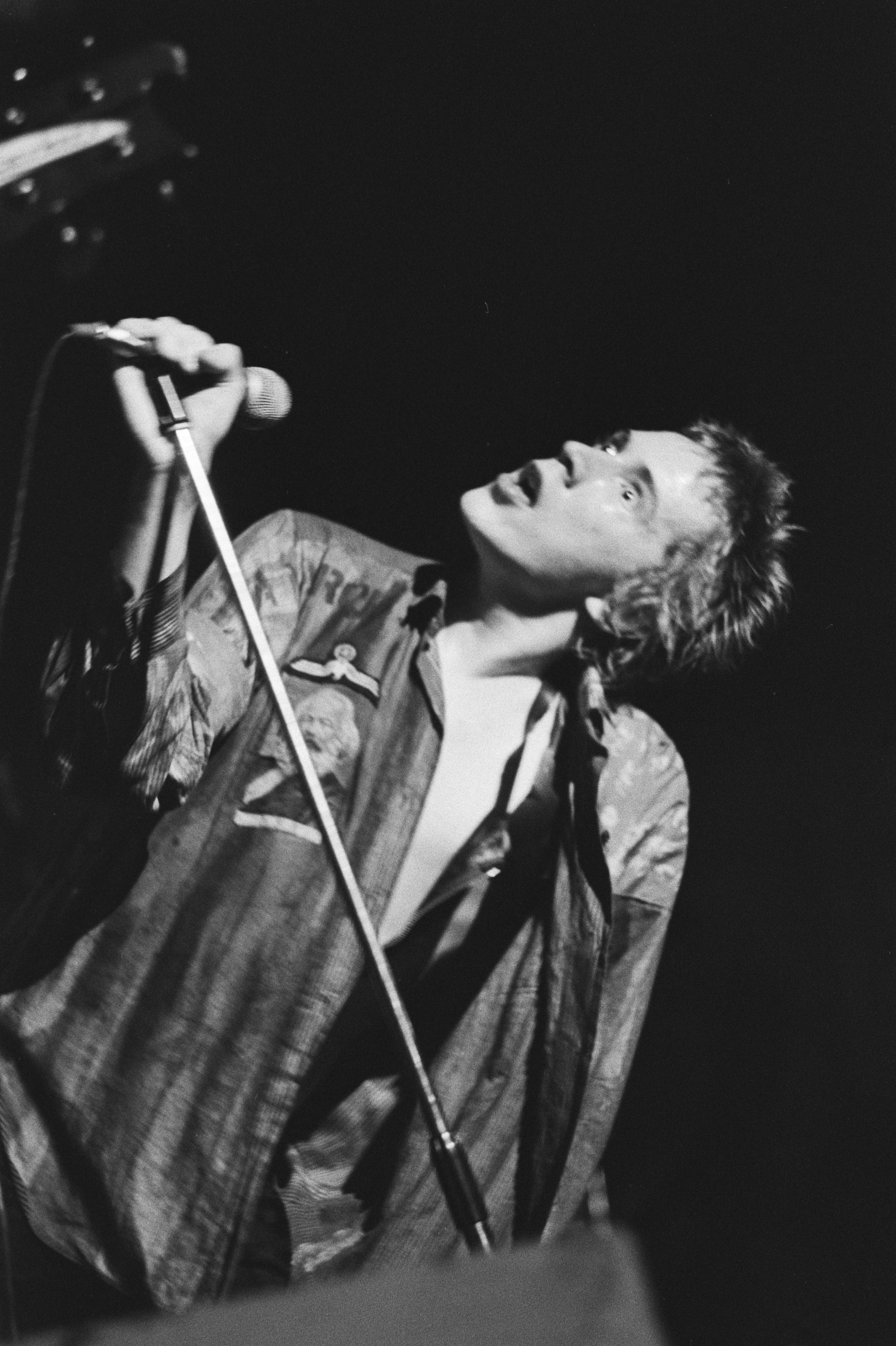 Sex Pistols perform in Paradiso, Amsterdam.